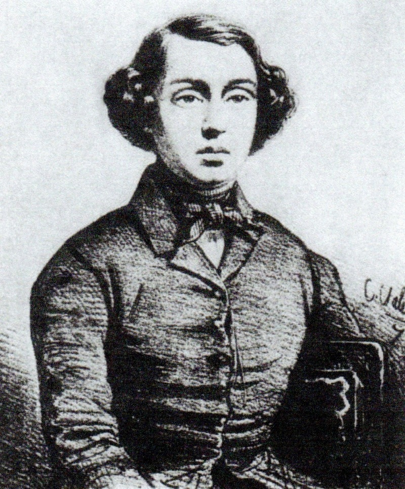 Portrait of Marius Ivanovich Petipa (1818-1910), at about 15 years old. Second Maître de Ballet of the St. Petersburg Imperial Theatres (1862-1871), and Premier Maître de Ballet of the St. Petersburg Imperial Theatres (1871-1903).